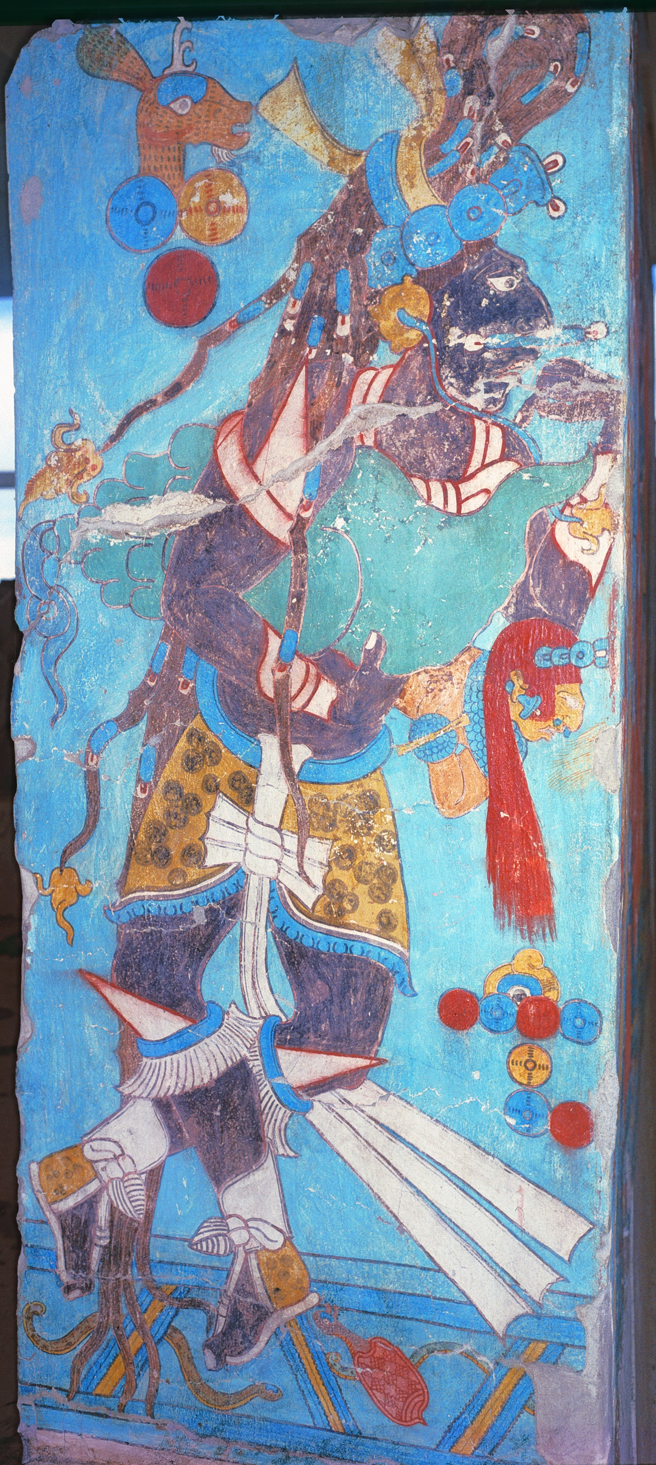 Cacaxtla, Tlaxcala, Mexico: Room 1, right doorjamb